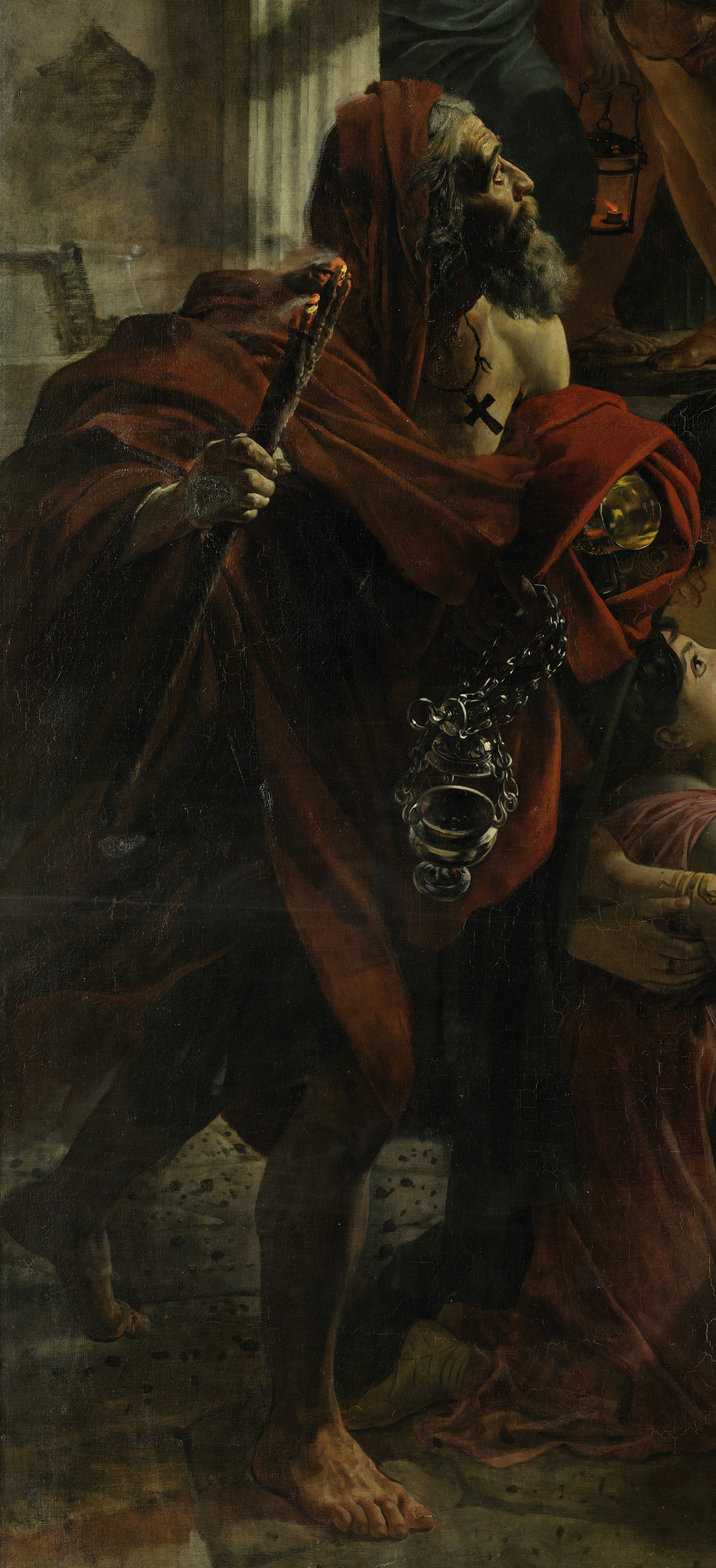 Detail of "The last day of Pompeii" (by Karl Bryullov, 1833, Russian Museum)